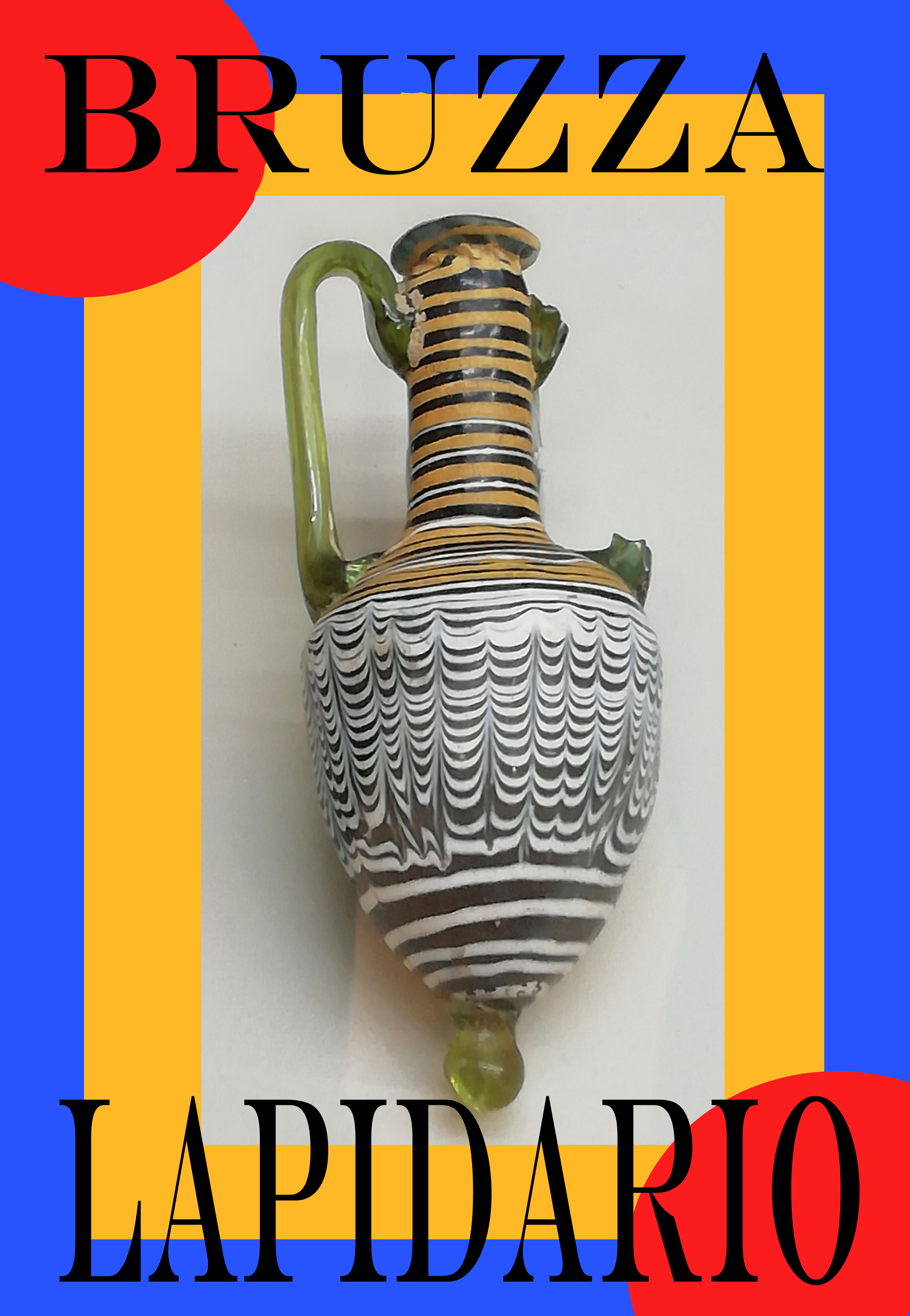 Grafica Bruzza Lapidario MAC Vercelli